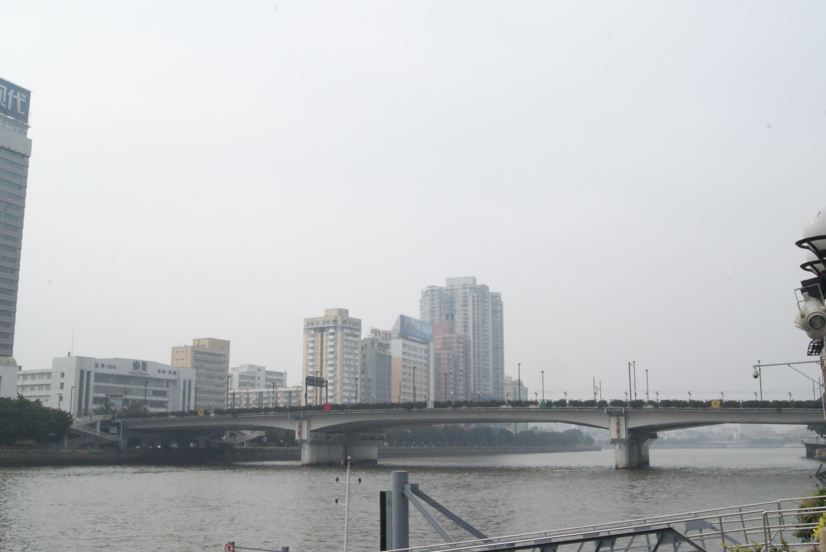 renmin_bridge of guangzhou,china